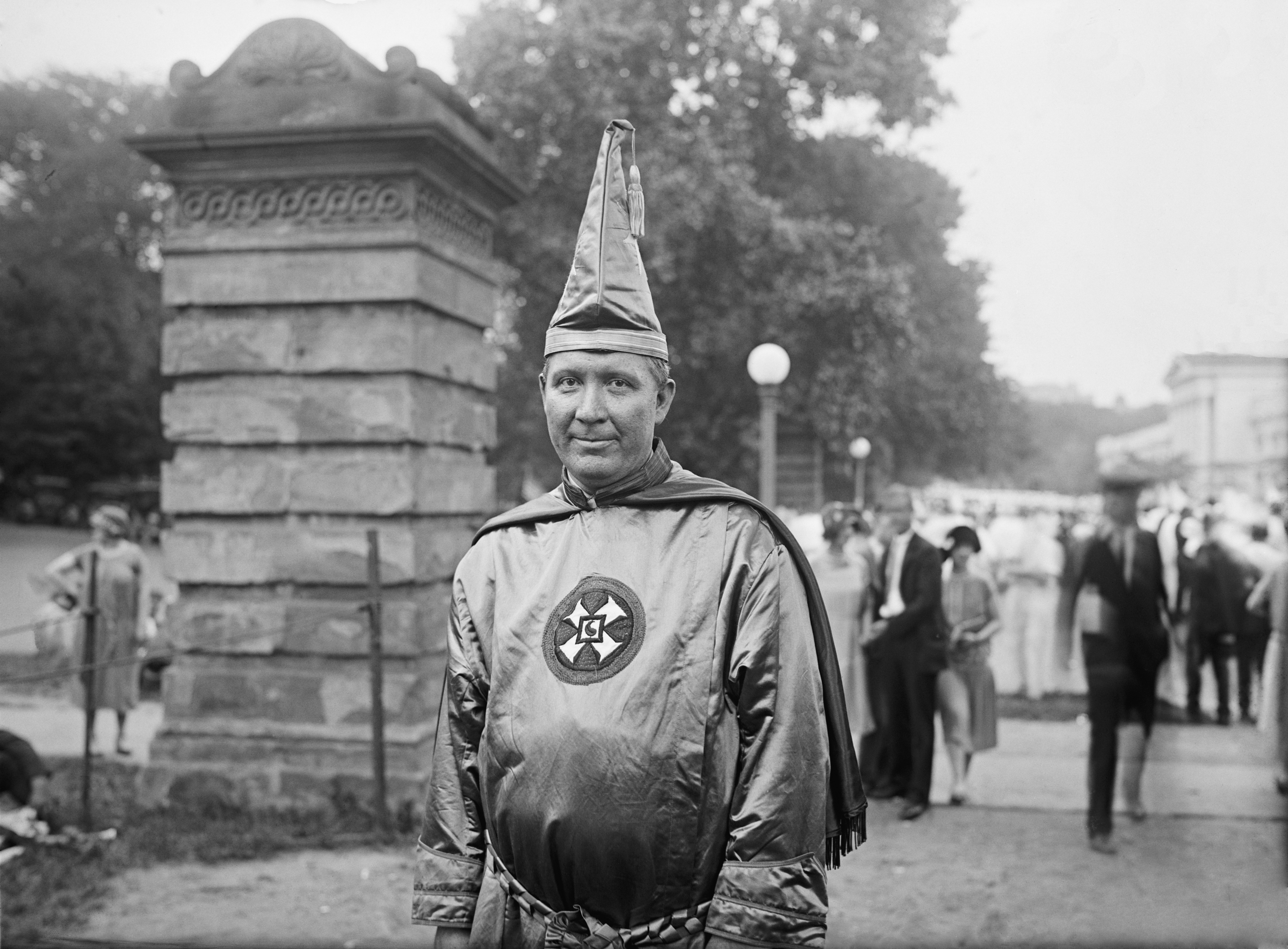 Dr. H.W. Evans, Imperial Wizard.